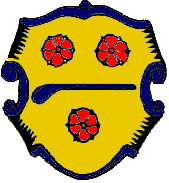 Coat of arms of the municipality of Helmstadt